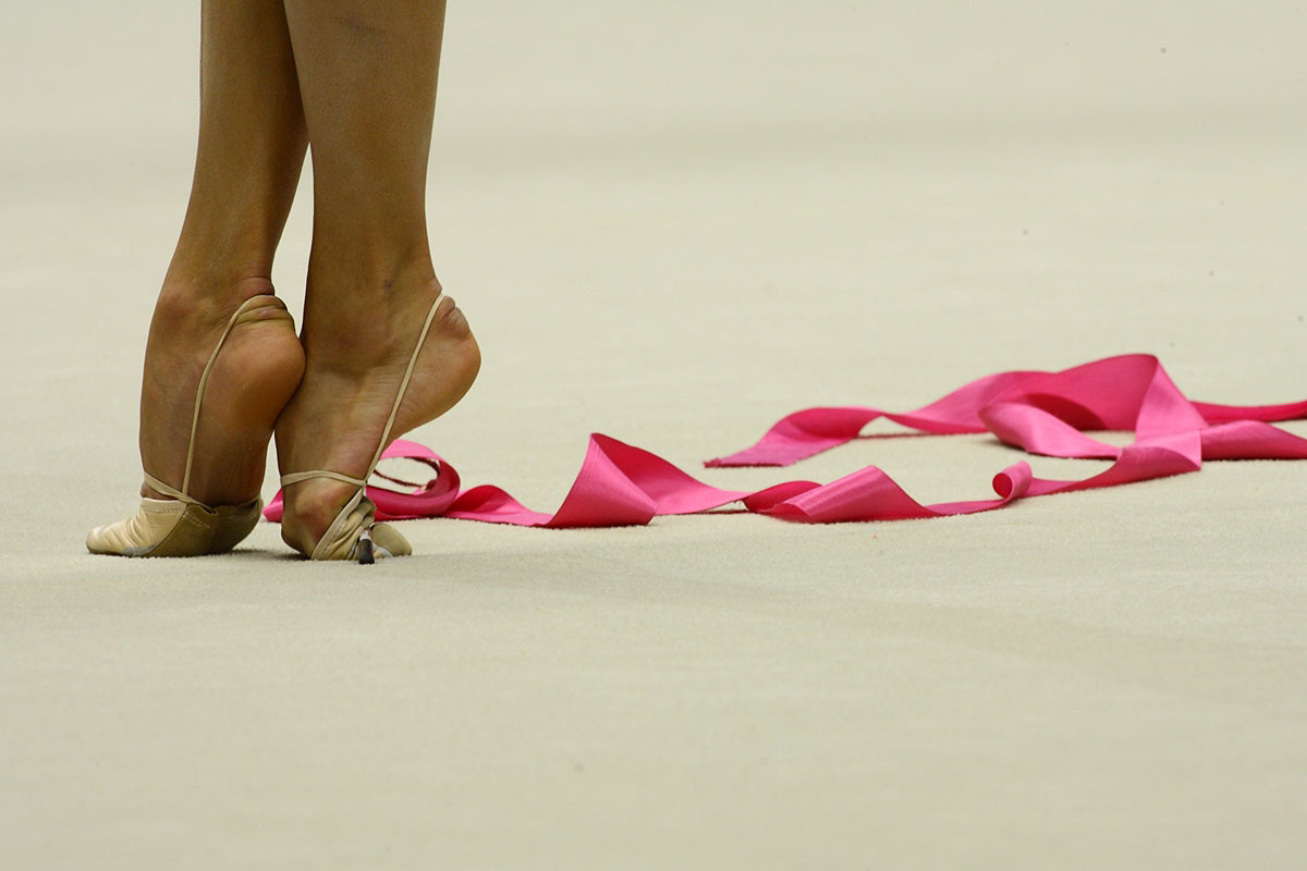 OCTOBER 12, 2008 - Rhythmic Gymnastics : The AEON CUP 2008 Worldwide R.G. Club Championships at Tokyo Metropolitan Gymnasium on October 12, 2008 in Tokyo, Japan. (Photo by Tsutomu Takasu)